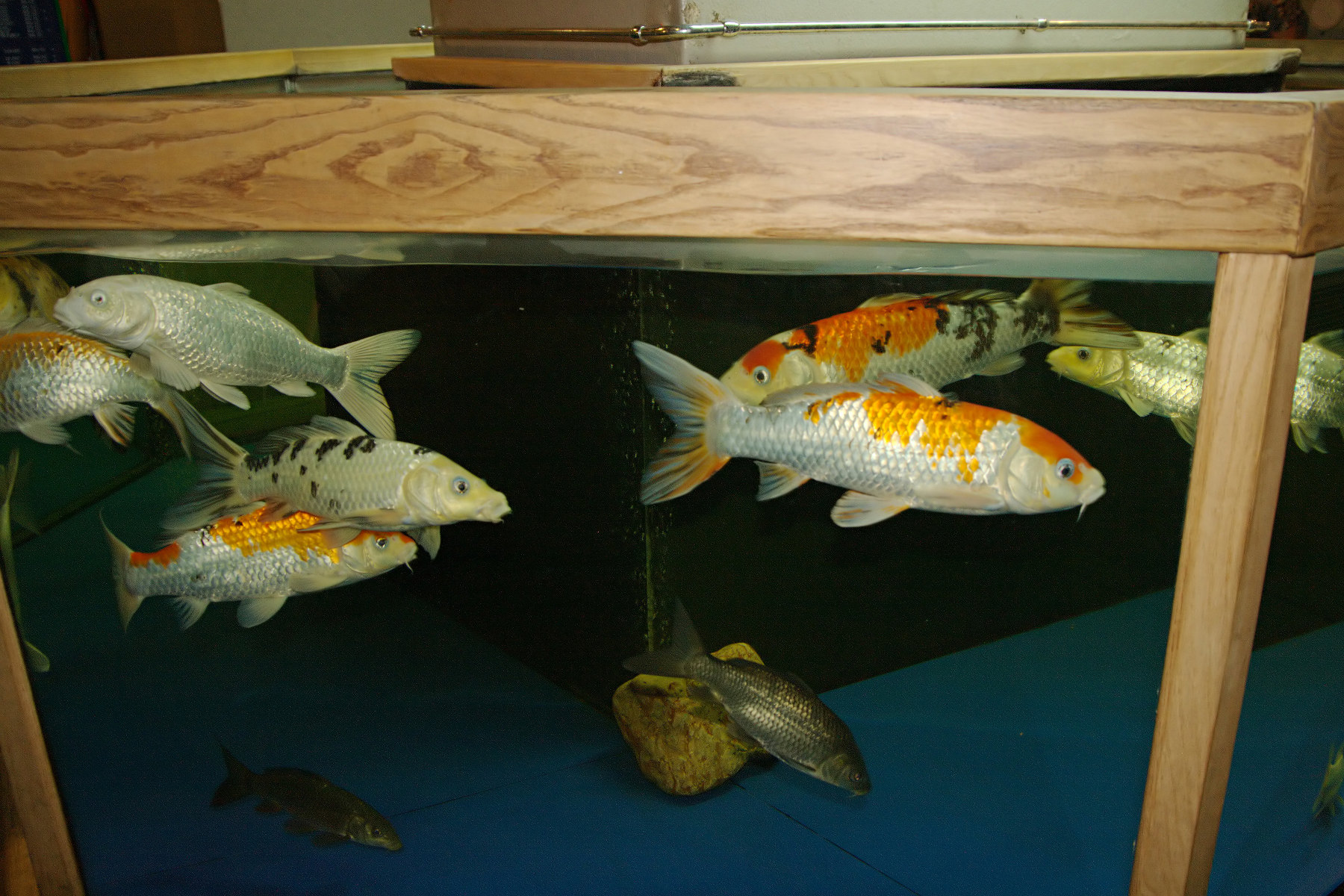 Water center in Kyiv. Aquarium with Koi